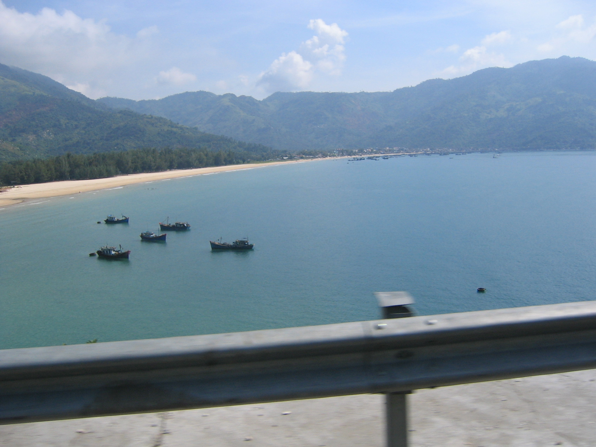 Dai Lanh beach in Van Ninh district